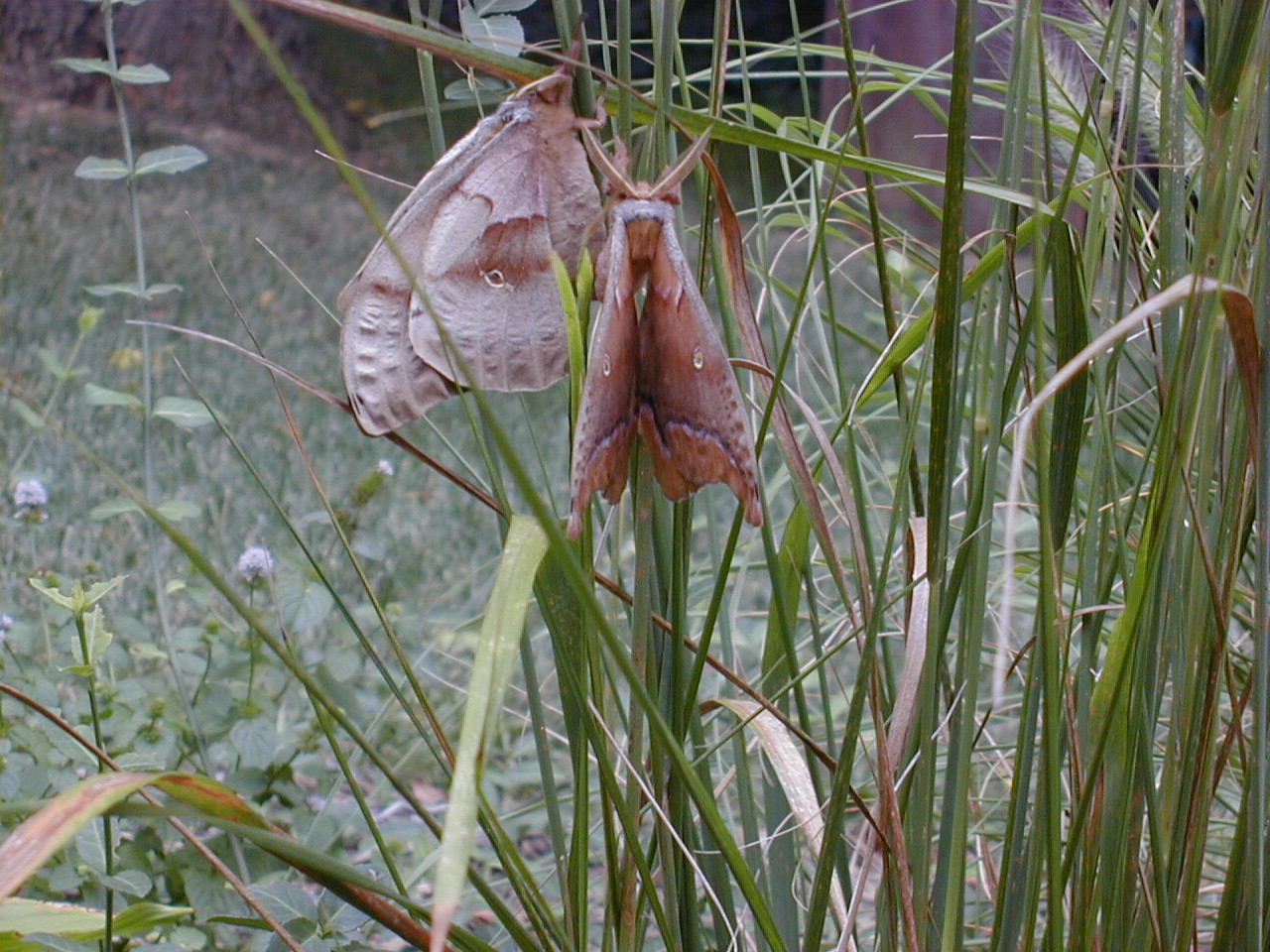 Polyphemus moths mating on an ornamental grass (Calamagrostis acutiflora 'Stricta'). Photo taken by Michael Ney outside Annapolis, MD.